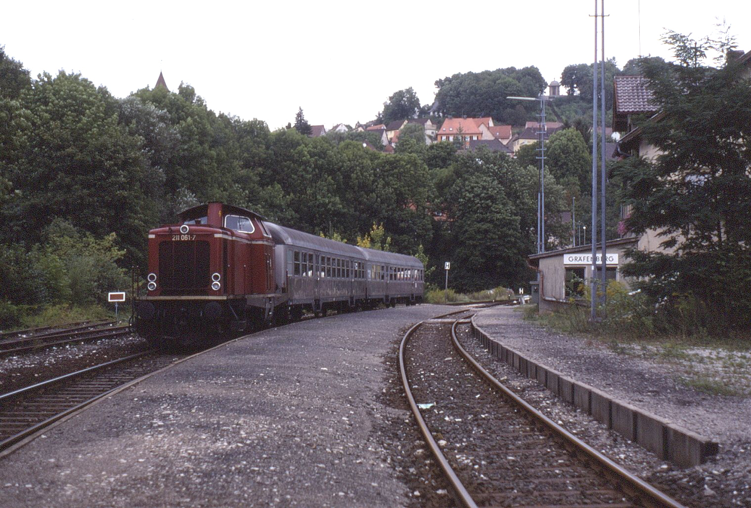 End of the line shot on the isolated branch from Nürnberg Nordost to Gräfenberg. The line is still connected up to the rest of the system, but via freight only lines. At the time, in order to reach Nordost, it was necessary to take a tram from Nürnberg Hbf, nowadays a U-Bahn service is in operation. Diesel locomotive DB Class V 100 is waiting departure on train 6624, 17:25 Gräfenberg to Nürnberg Nordost.